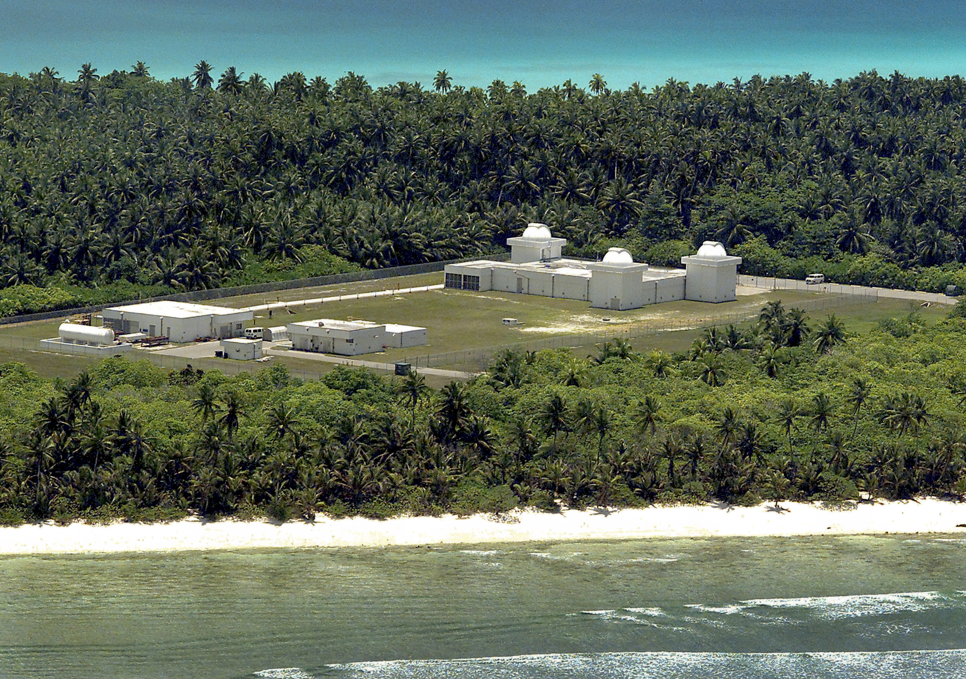 The Ground-Based Electro-Optical Deep Space Surveillance System (GEODSS) facility in Southwest Asia is one of three operational sites worldwide. Specialists at the three sites track known man-made deep space objects in orbit around earth. (U.S. Air Force photo/Senior Master Sgt. John Rohrer)